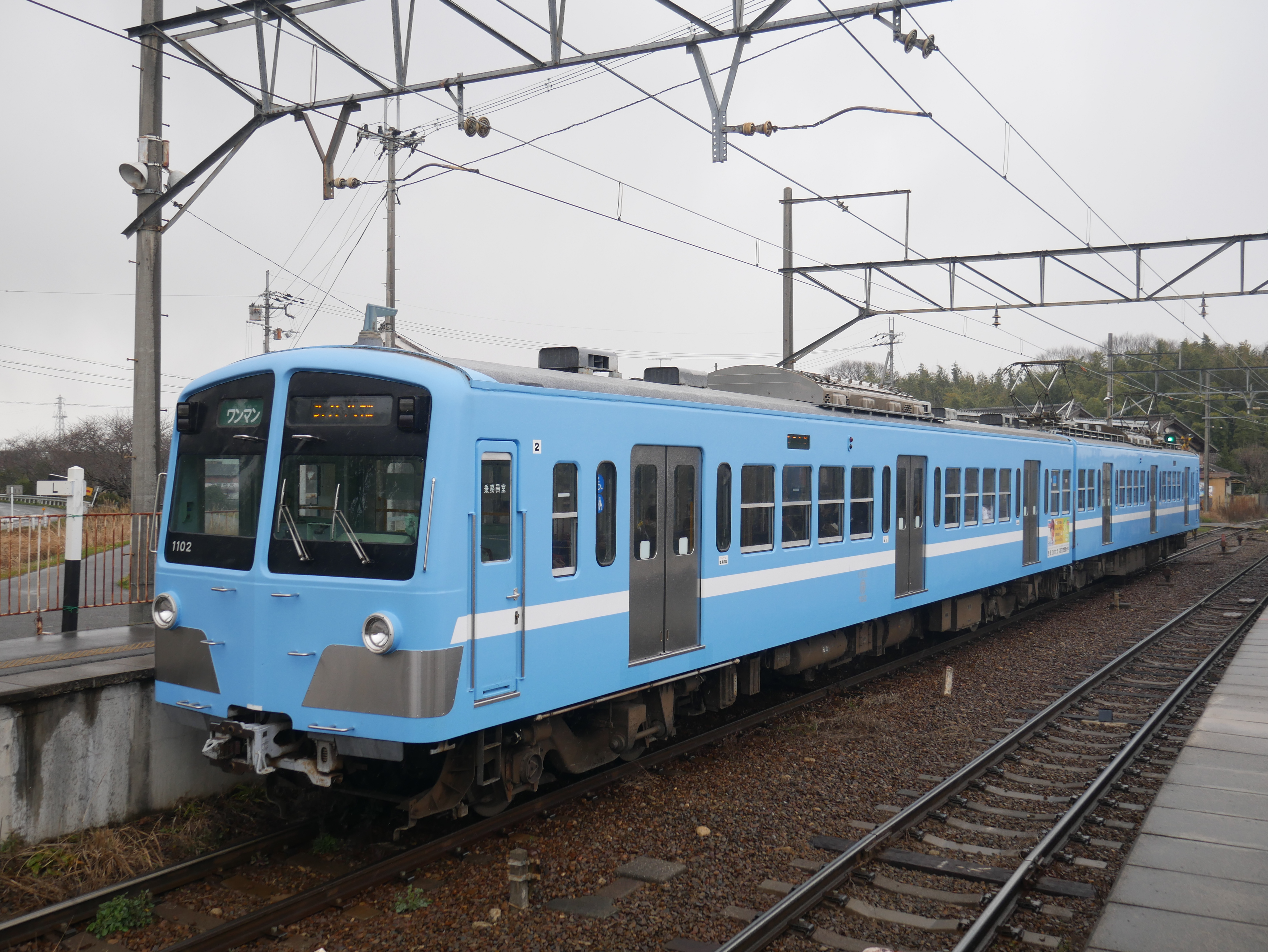 Ohmi Railway MOHA(Driving Motor Car) 1102 at Musa station